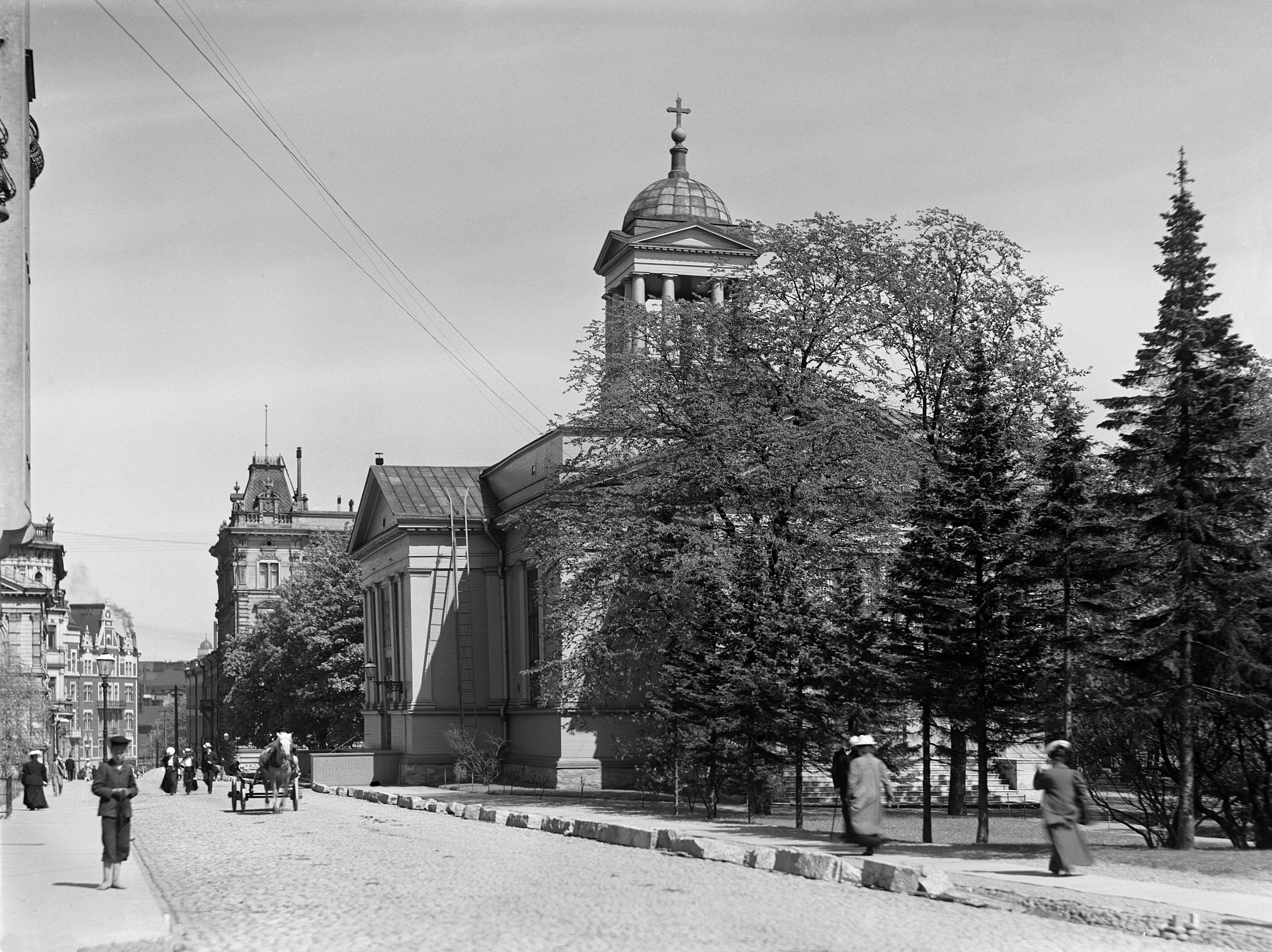 Helsinki Old Church on Antinkatu (now Lönnrotinkatu) in Helsinki, Finland.